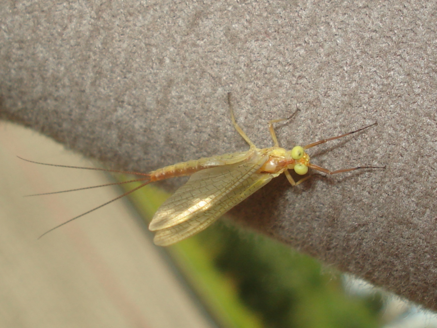 Potamanthus luteus